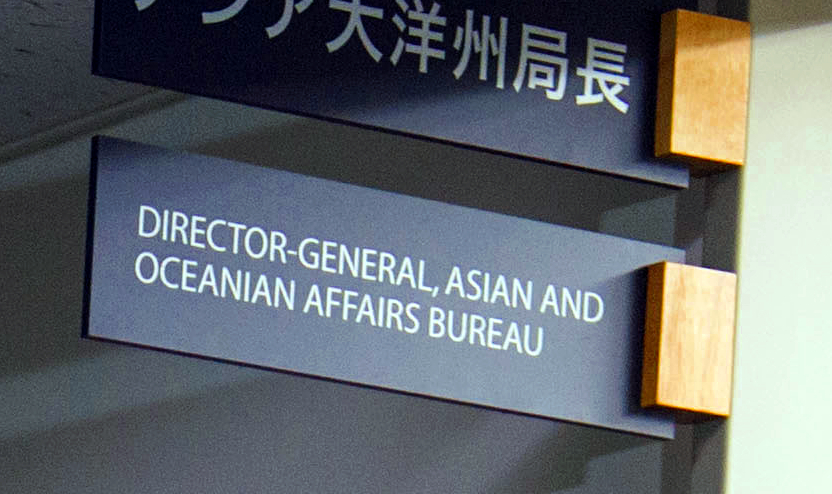 Glyn Davies, Special Representative for North Korea Policy, met Jun'ichi Ihara, Director-General of the Asian and Oceanian Affairs Bureau, Ministry of Foreign Affairs, at the Ministry of Foreign Affairs Main Building in Chiyoda Ward, Tōkyō Metropolis on November 25, 2013.